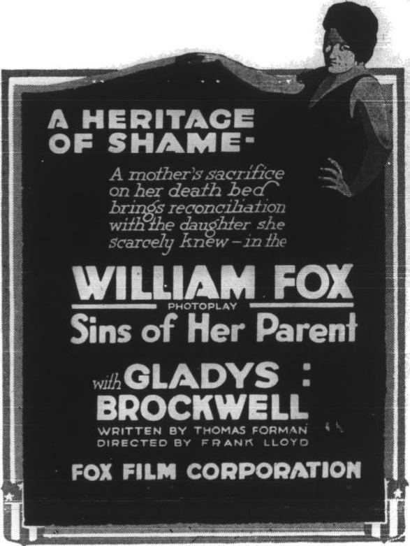 Advertisement for the American drama film Sins of Her Parent (1916) with Gladys Brockwell, on page 29 of the November 3, 1916 Variety.